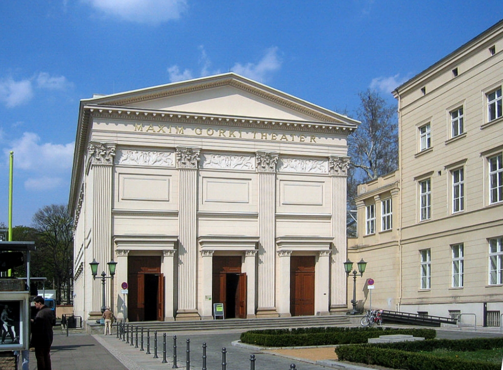 Maxim-Gorki-Theater (formerly: Sing-Akademie zu Berlin) Berlin, Germany